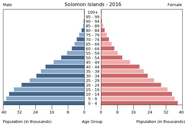 The population pyramid of the Solomon Islands illustrates the age and sex structure of population and may provide insights about political and social stability, as well as economic development. The population is distributed along the horizontal axis, with males shown on the left and females on the right. The male and female populations are broken down into 5-year age groups represented as horizontal bars along the vertical axis, with the youngest age groups at the bottom and the oldest at the top. The shape of the population pyramid gradually evolves over time based on fertility, mortality, and international migration trends.